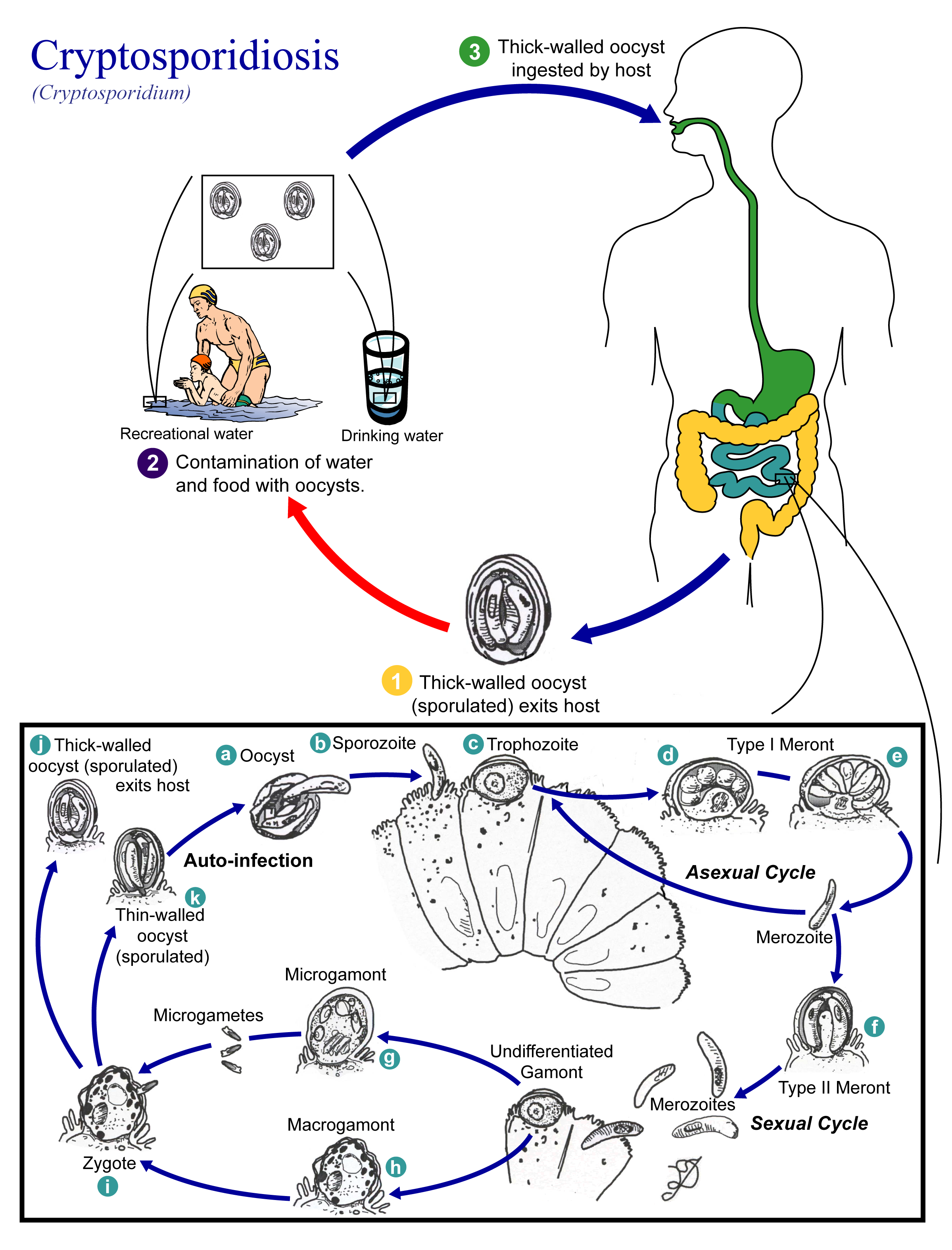 Life cycle of Cryptosporidium spp., the causative agents of Cryptosporidiosis.